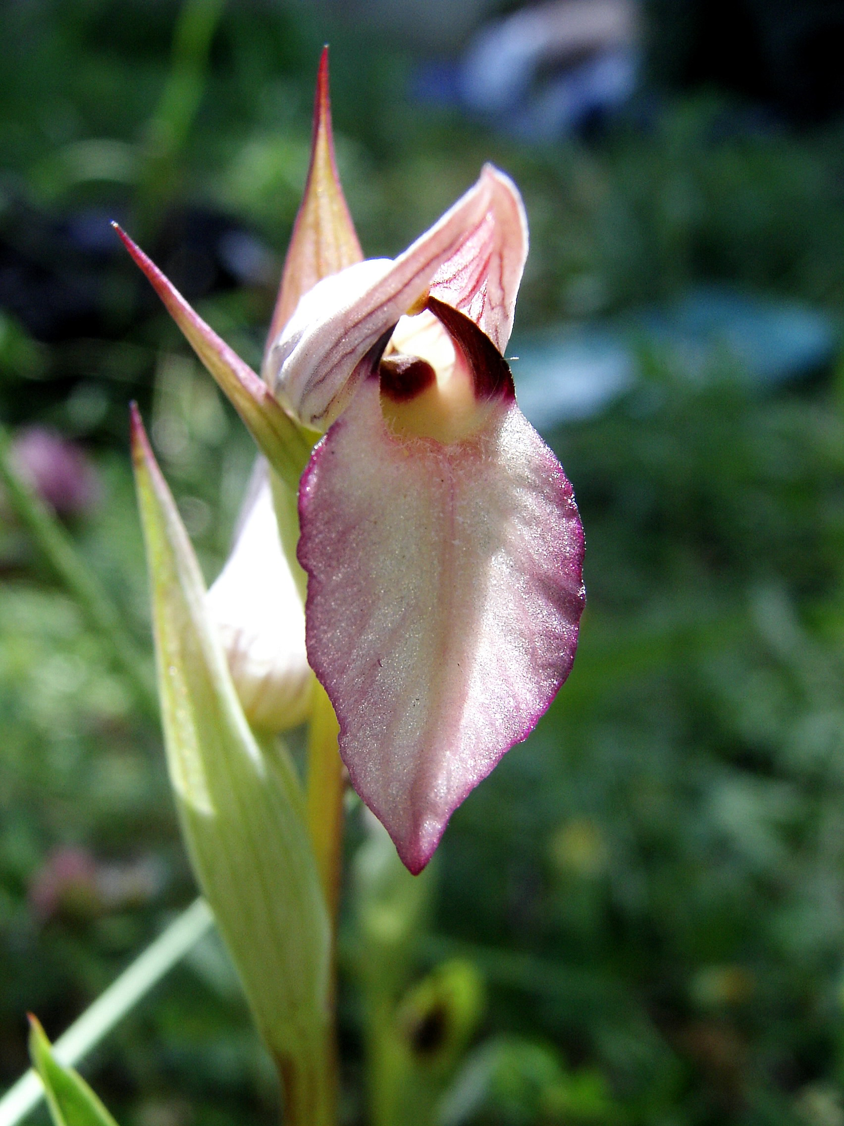 Serapias lingua, (Gewone tongorchis), Dordogne (France)